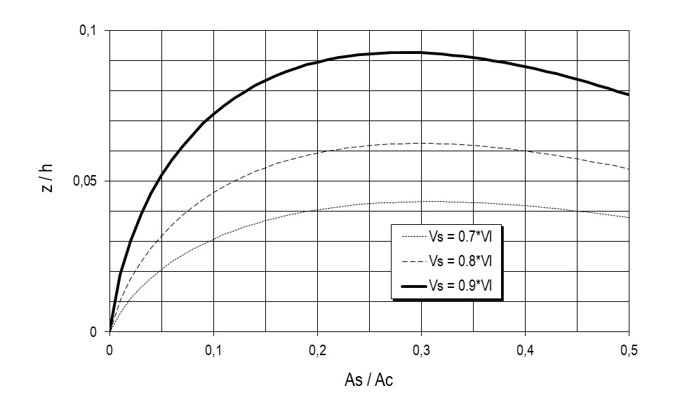 According to the method of Schijf